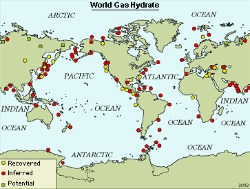 Locations of known and inferred gas hydrate (methane clathrate) occurrences in oceanic sediments of outer continental margins and permafrost regions.